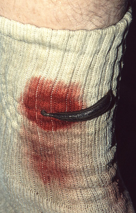 The large terrestrial leeches ("Lintah" here in Sumatra) can bite through clothing. Don't yank them off-- they leave their teeth behind. In context at